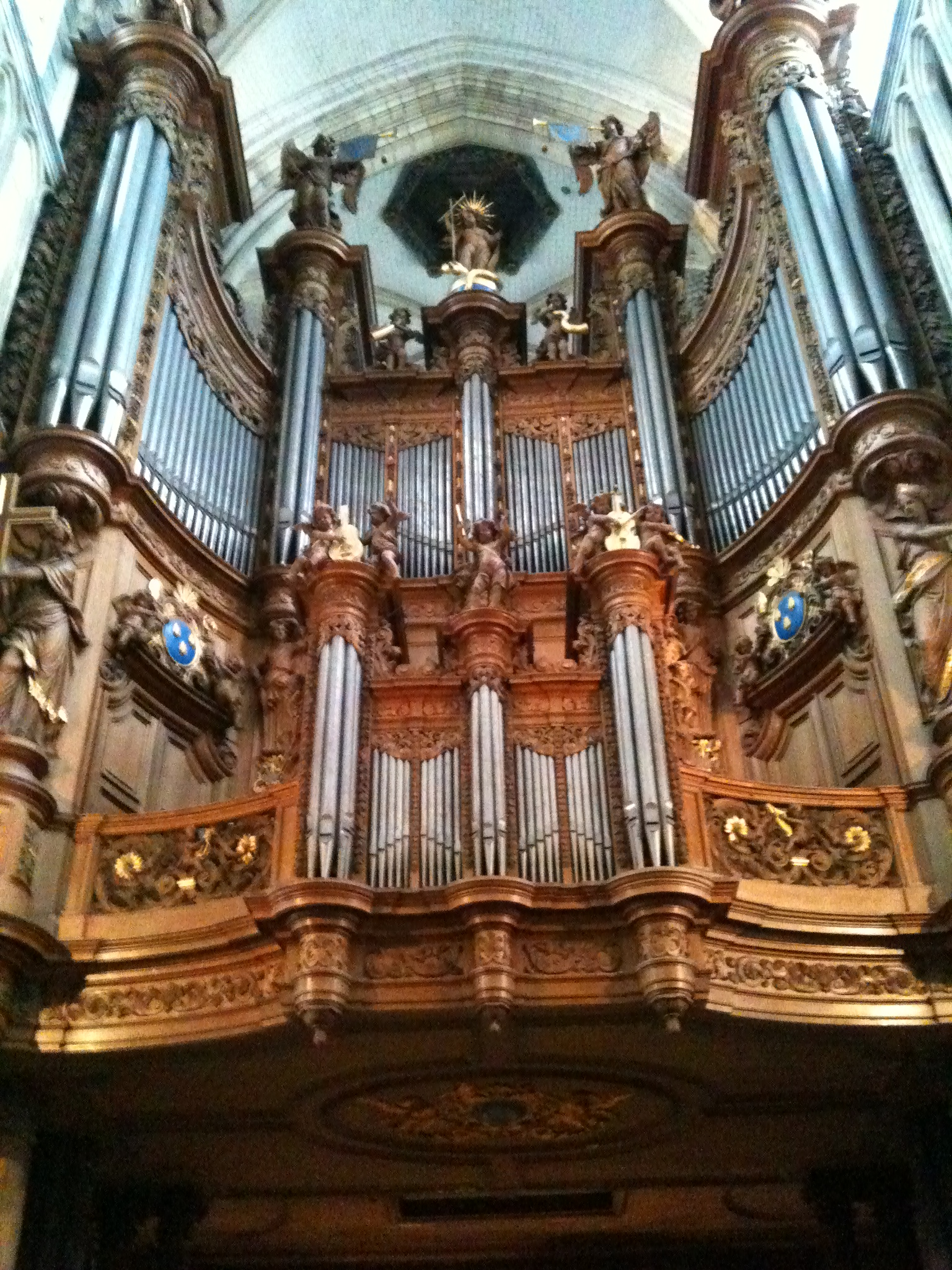 18th century, with Danish oak case, built by the Piette brothers. It is huge!